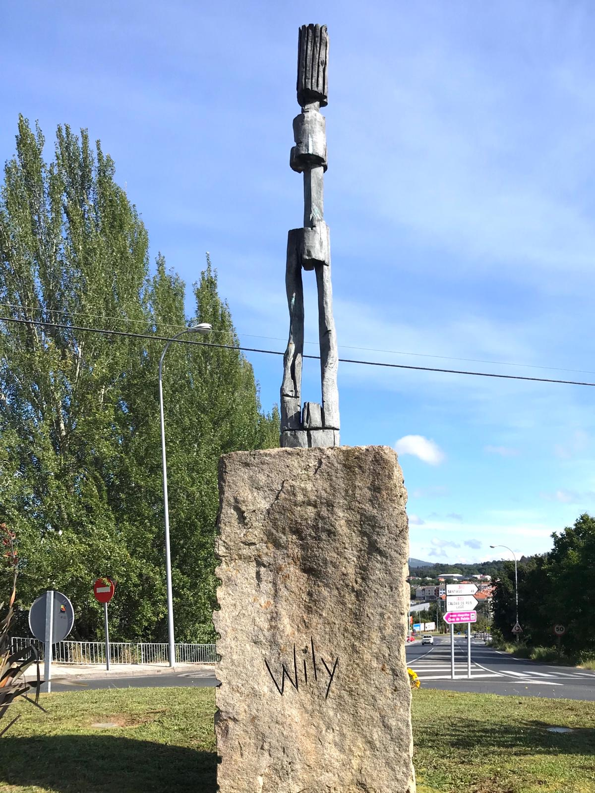 transatlática